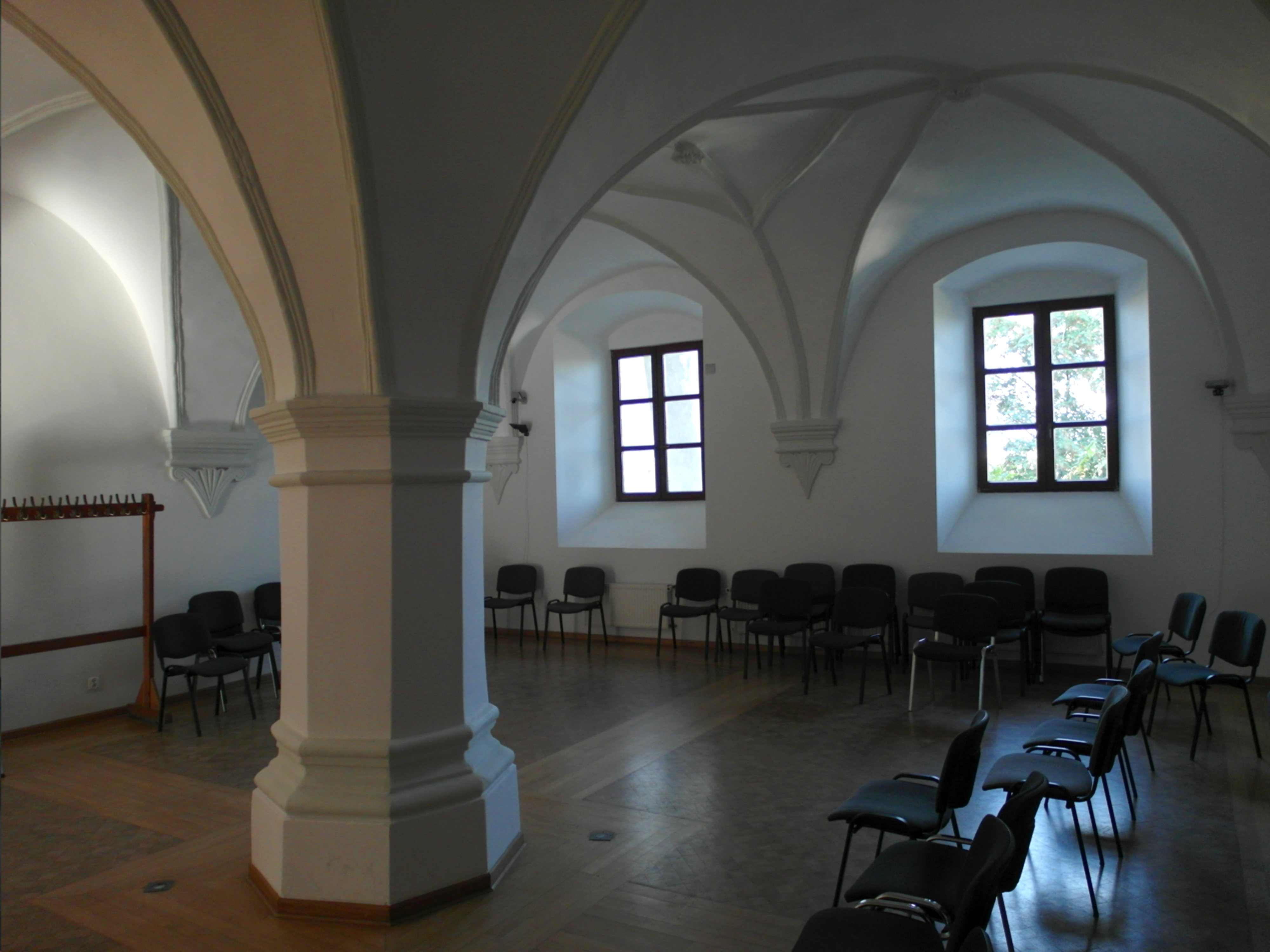 Refectory of the Dominican convent in Lublin